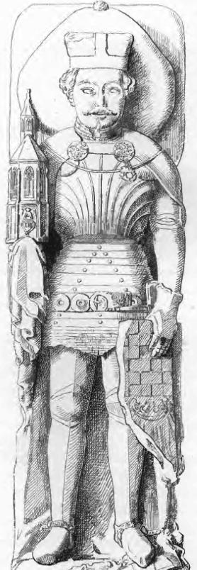 Tombstone of a duke of Liegnitz - either Wenceslaus I. († 1364) or (more probably) Louis II. († 1436) - from the 1st half od the 15th century. Lithography based on a drawing.